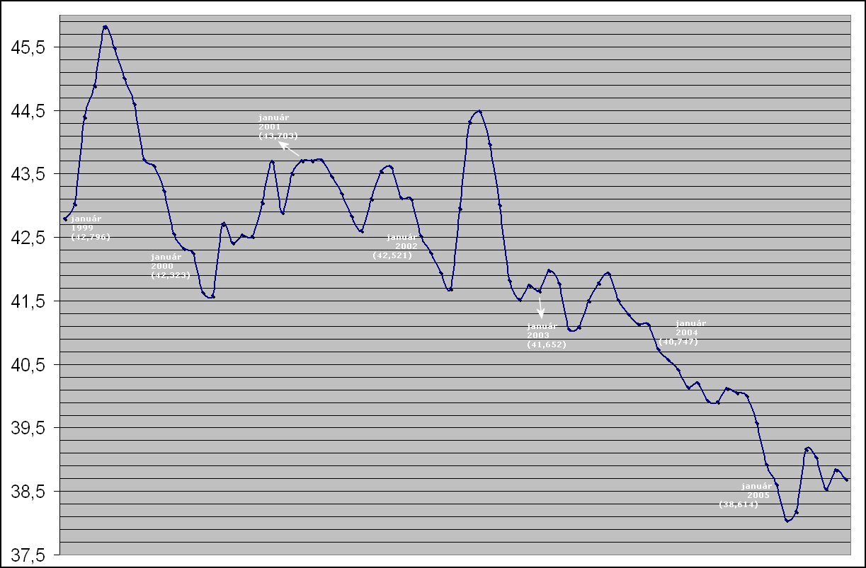 Author: User:Ondrejk Image:History Exchange Rate SKK EUR 1999 to 2005.sxc - source table